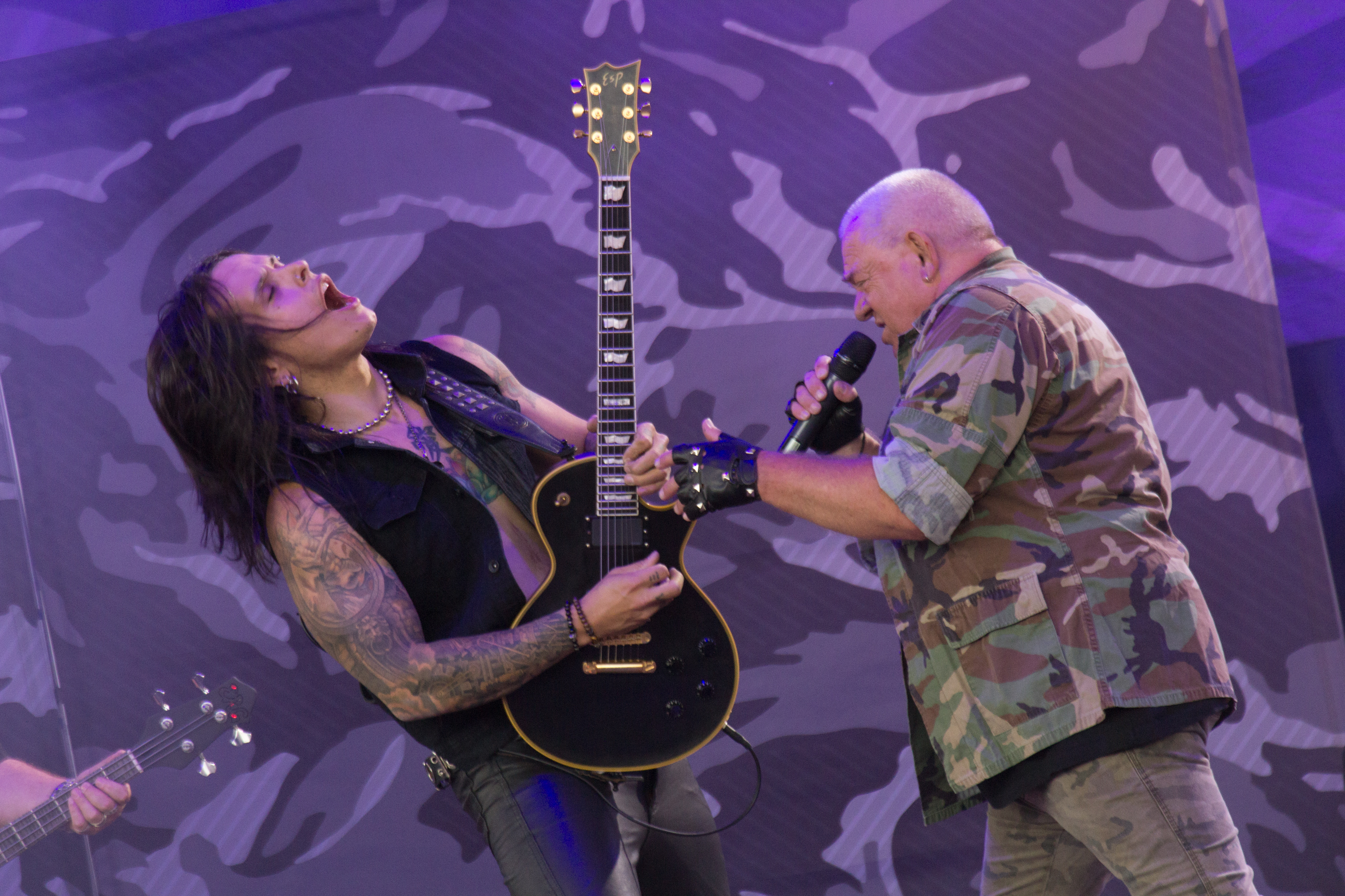 Dirkschneider performing live at Rock Hard Festival 2017, Gelsenkirchen, Germany